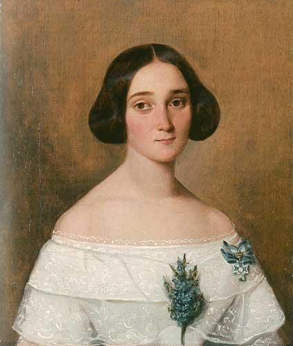 Portrait of a Lady